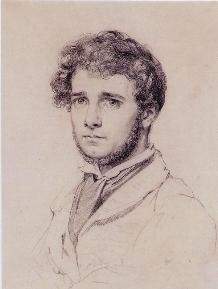 Portrait of Augustin Dumont (1801-1884)